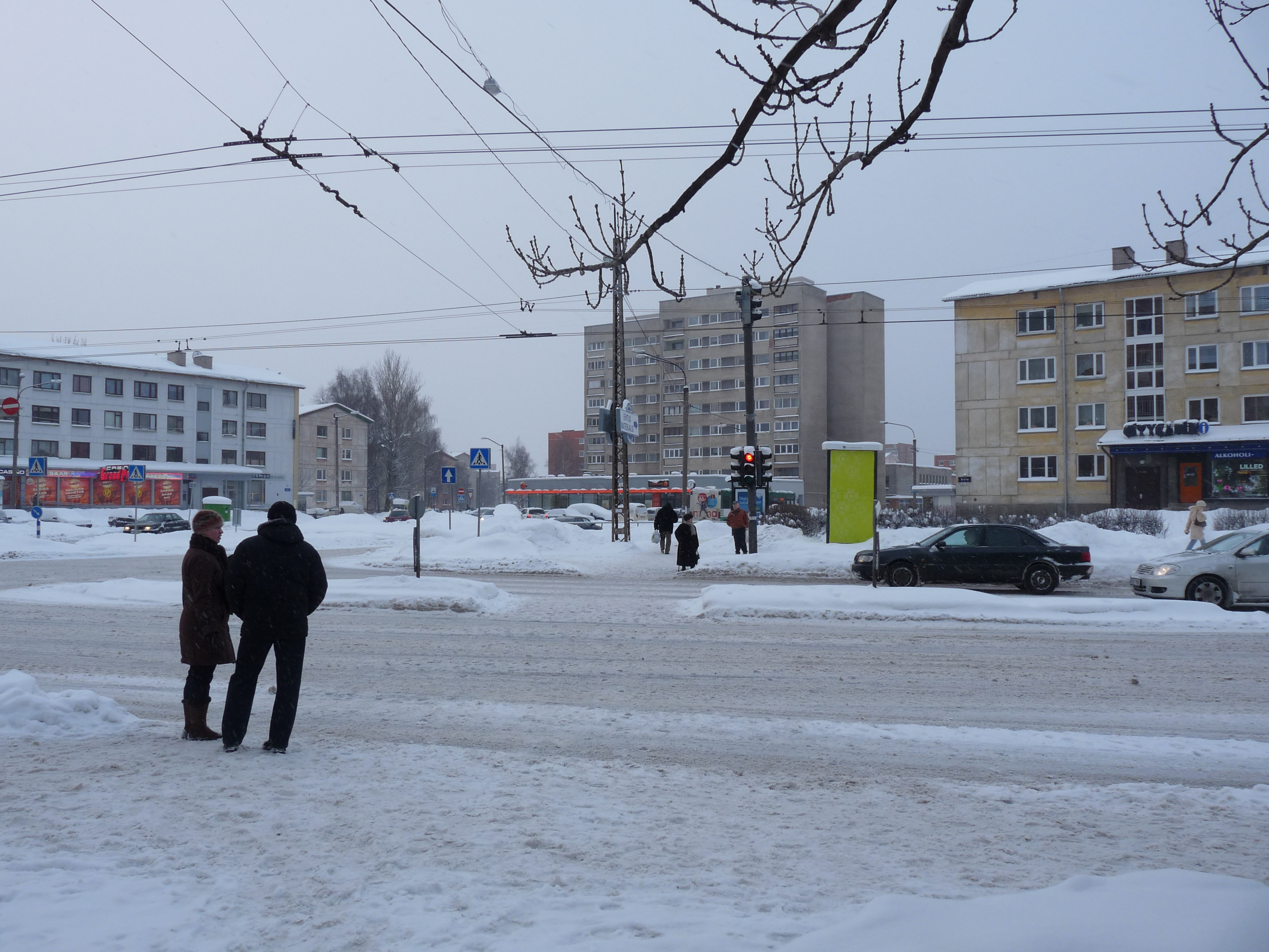 Intersection of Sõle, Sitsi, Madala and Kari streets in Tallinn